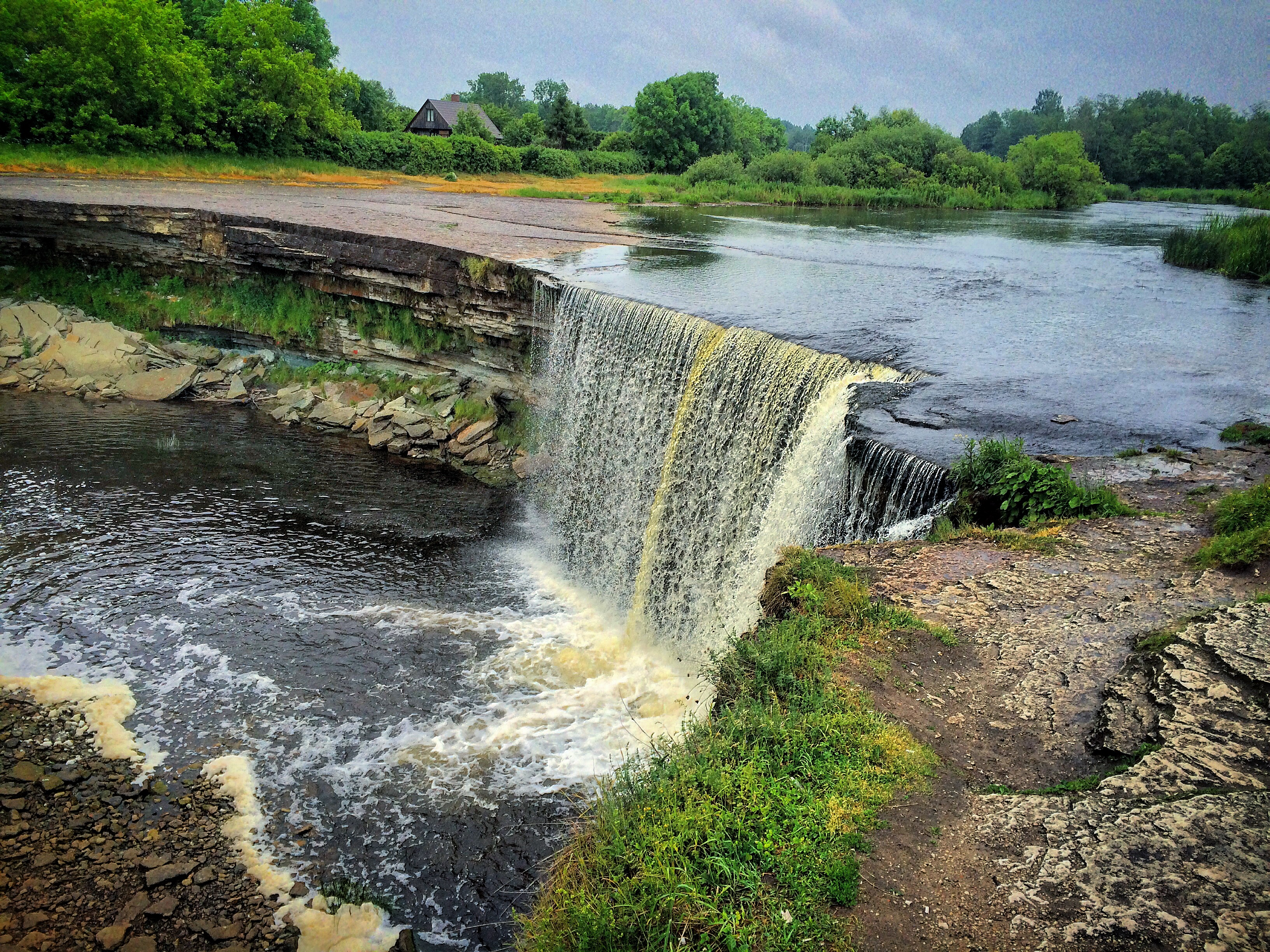 Jõelähtme Parish, Harju County, Estonia